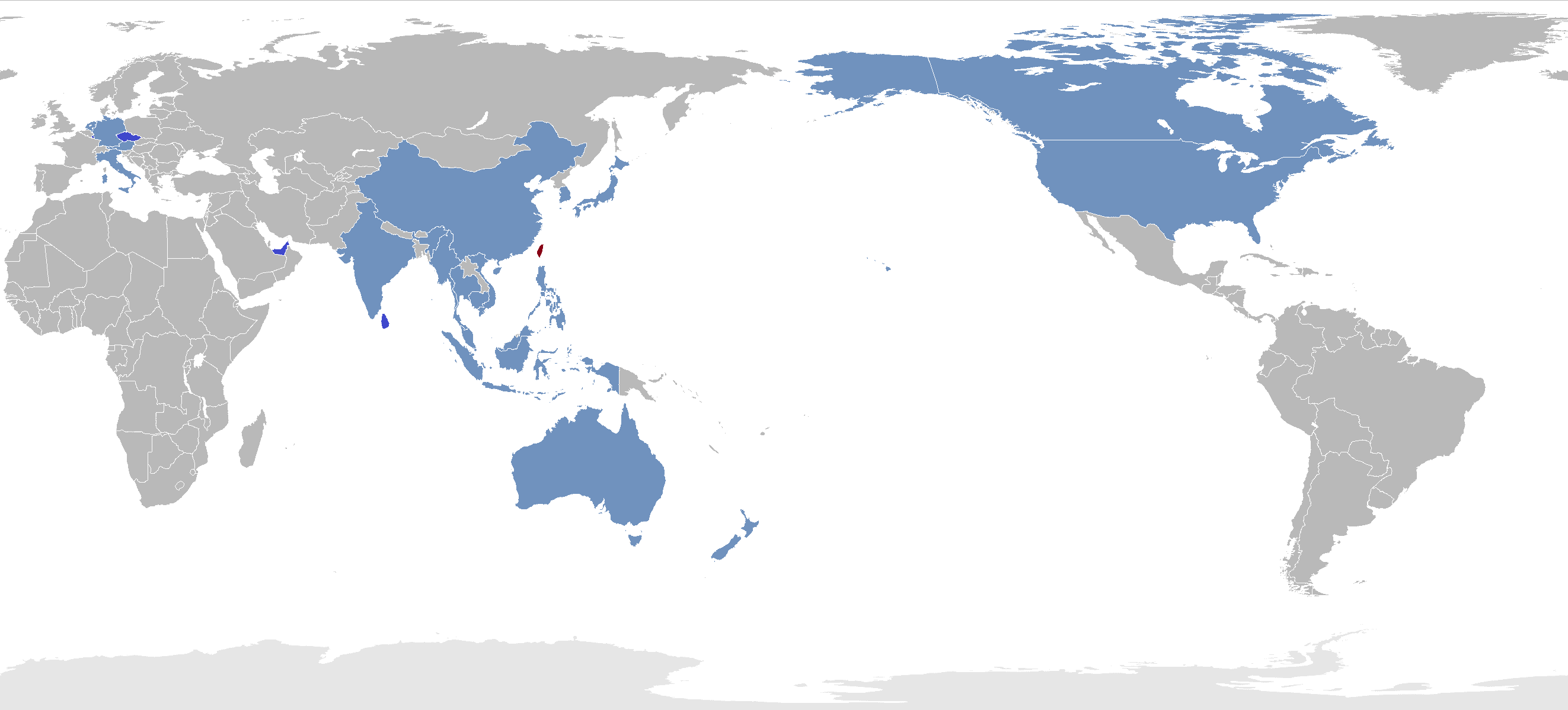 Map of countries served by China Airlines.